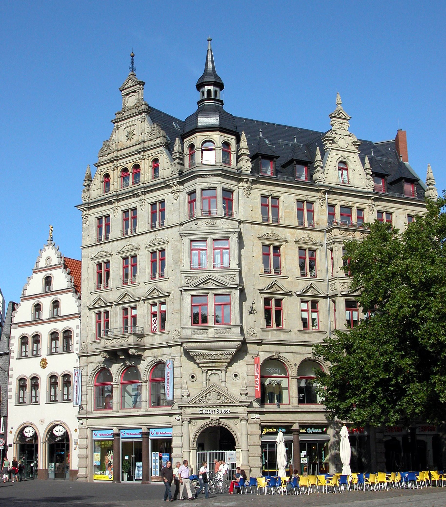 Braunschweig, Germany: “Gold Star House” on the Coal Market.